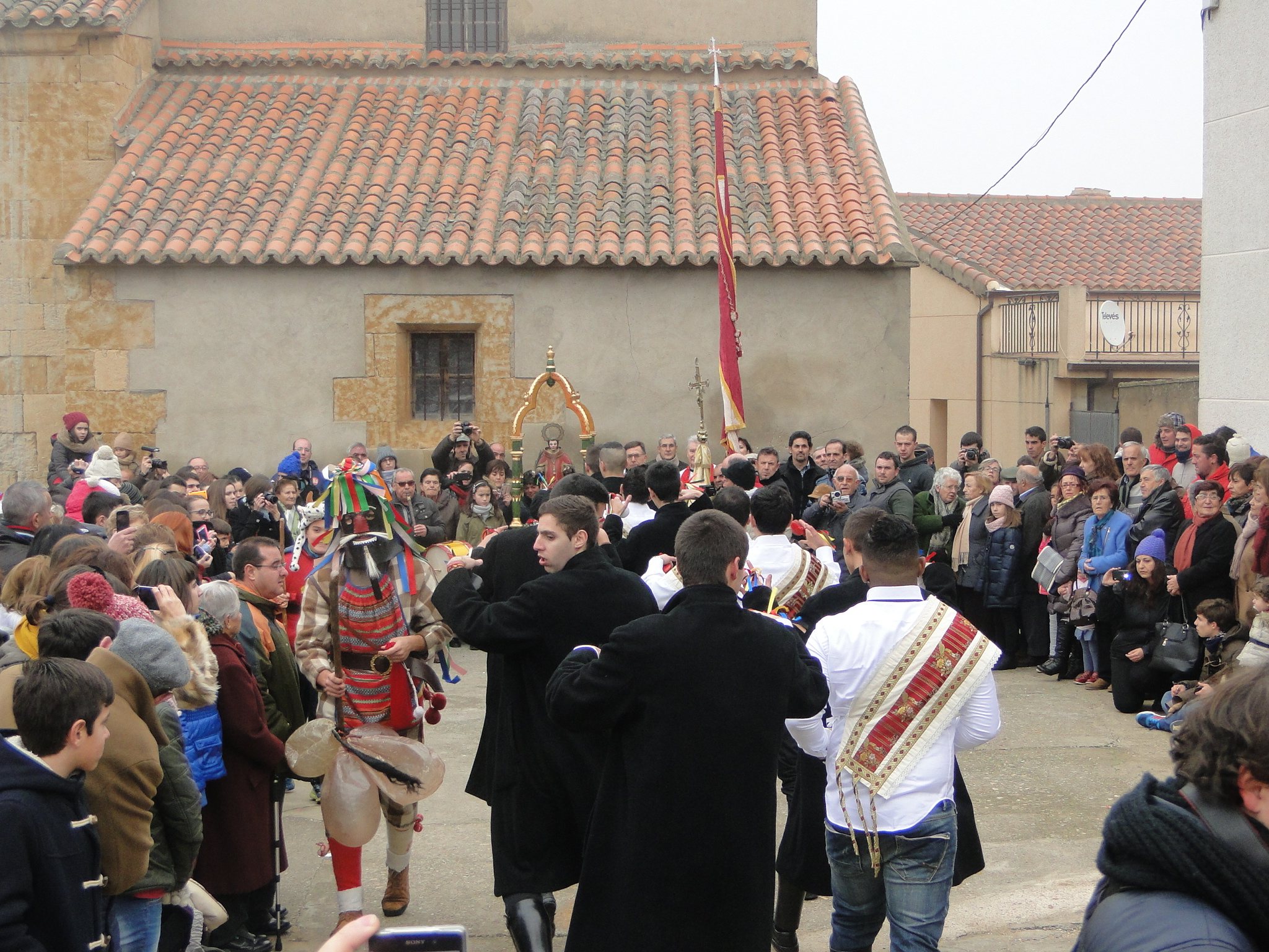 El Zangarrón is a traditional folk festival in the town of Sanzoles, Zamora, Spain. It is celebrated on December 26. The Zangarrón is a traditional figure that according to legend defended the image of San Esteban when the locals wanted to stone him for not doing a rain miracle. Currently, the conscripts dance in front of the image of San Esteban while the Zangarrón runs between the rows of dancers to prevent the spectators from interrupting them; he also runs behind people who show him money to take it away. This photo has been taken in the country: Spain